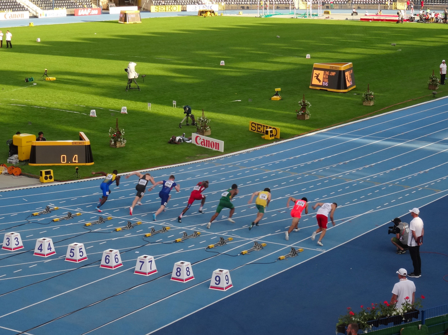 2016 IAAF World U20 Championships in Bydgoszcz, 100m men semi-final